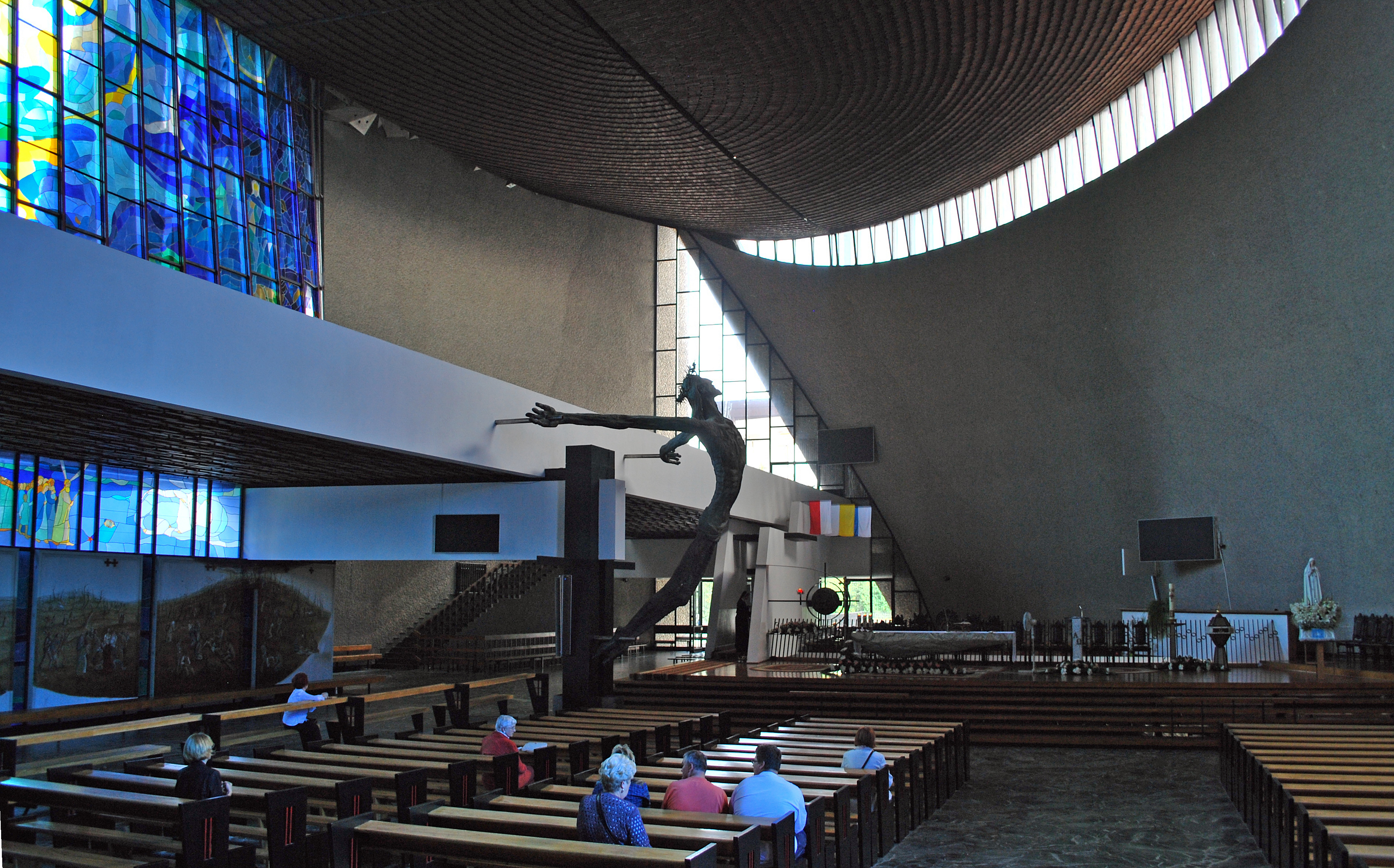 Church of Our Lady the Queen of Poland (Ark of Our Lord)-interior, 1 Obroncow Krzyza street, Nowa Huta, Krakow, Poland